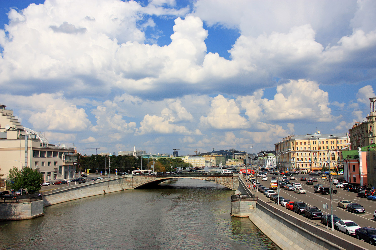 Voodotvodny Canal in Moscow. View on Maly Kameeny and Luzhkov bridges